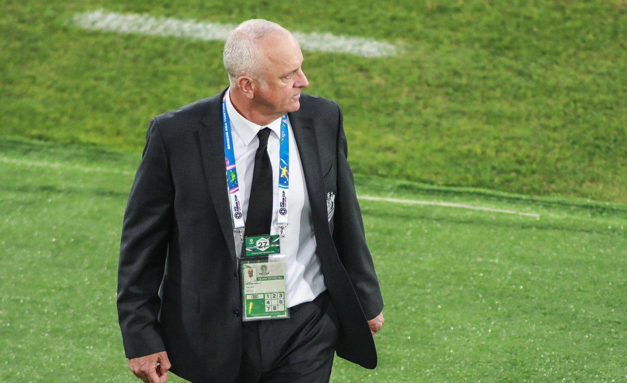 Australia & Syria Group B match, 2019 AFC Asian Cup